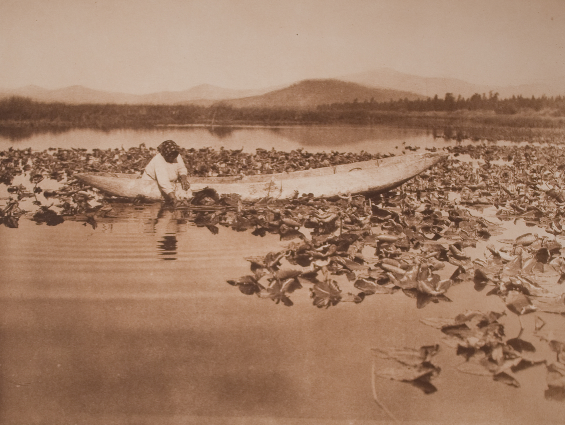 Title: Gathering Wokas - Klamath Artist: Edward Sheriff Curtis Artist Bio: American, 1868 - 1952 Creation Date: printed 1923 Process: photogravure Credit Line: Gift of Edwin and Irene Weinrot Accession Number: 1997.018.025